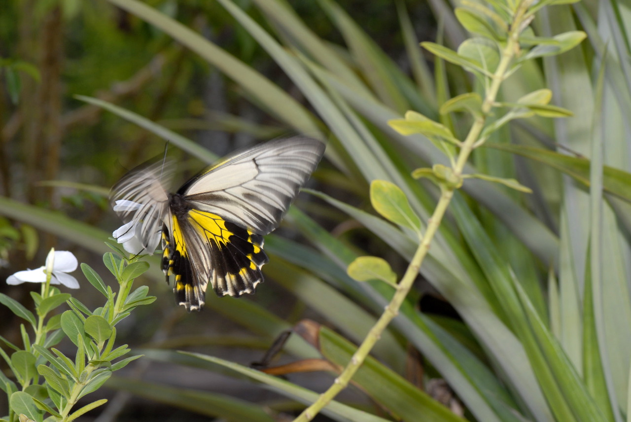 Troides amphrysus - Location: Borneo